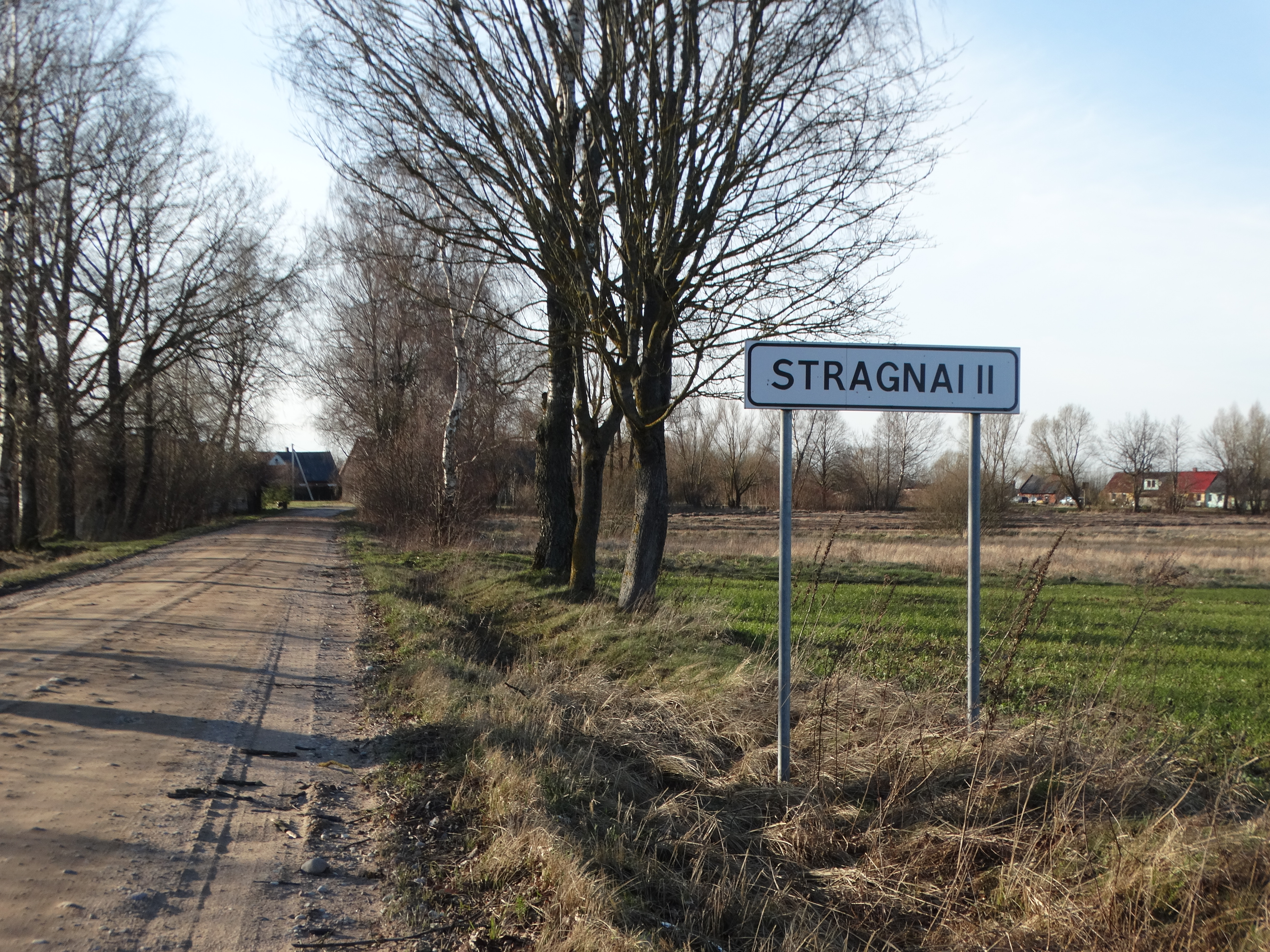 Stragnai II, Klaipėda district, Lithuania